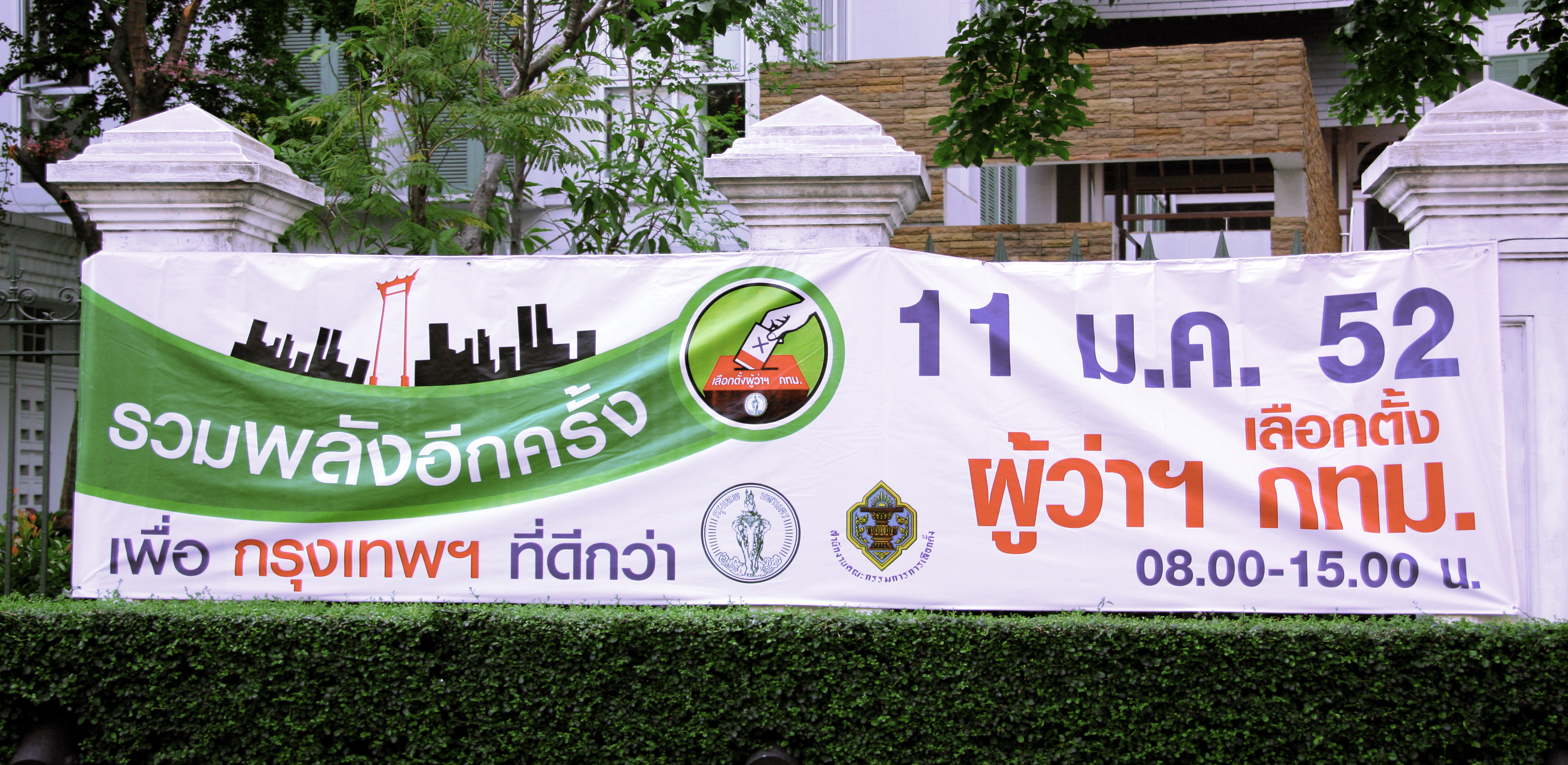 Poster promoting the Bangkok Gubernatorial election of 2009, take late 2008